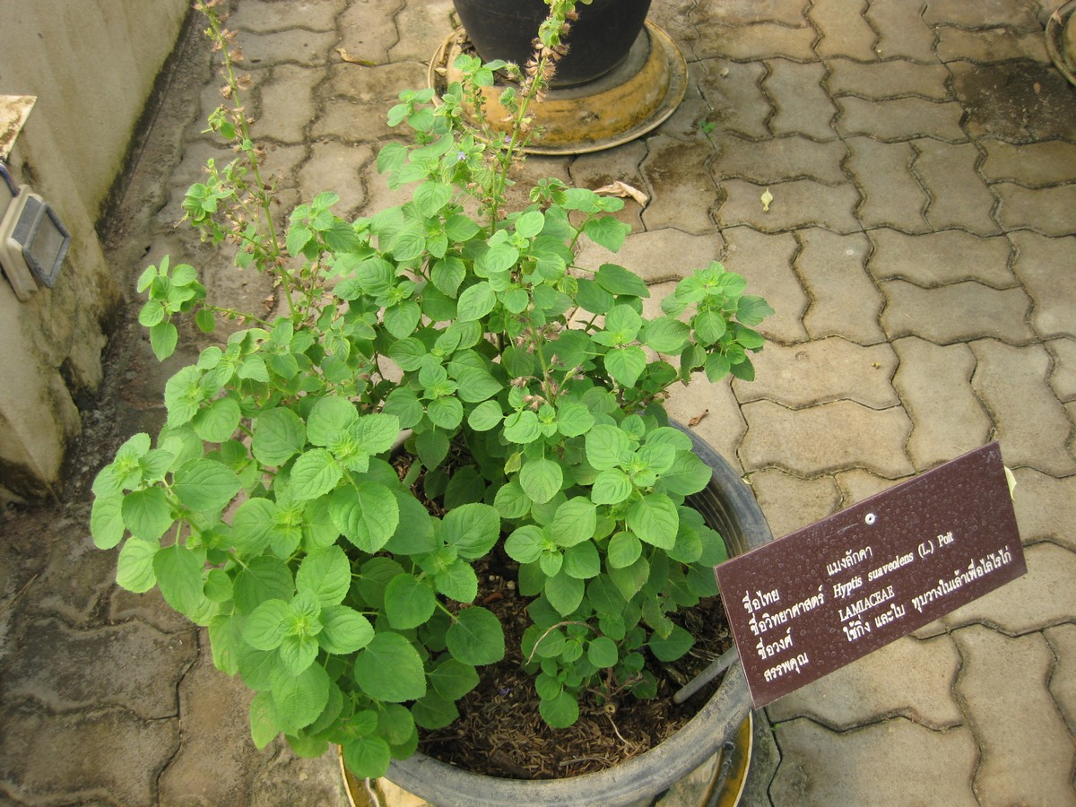 Hyptis suaveolens (L.) Poit. Photographed at the Queen Sirikit Botanic Garden (Chiang Mai Province, Thailand) in March